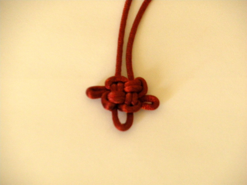 A Good Luck Chinese Knot